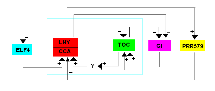 A somewhat simplified image trying to describe the presently known (or hypothesized) components of the circadian clock of plants. LHY=Late elongated hypocotyl, CCA=Circadian Clock Associated 1, TOC=Timing of CAB expression 1, ELF=Early Flowering, PRR=Pseudo Response Regulator; GI=Gigantea; ?=Unknown(hypothesized) factor